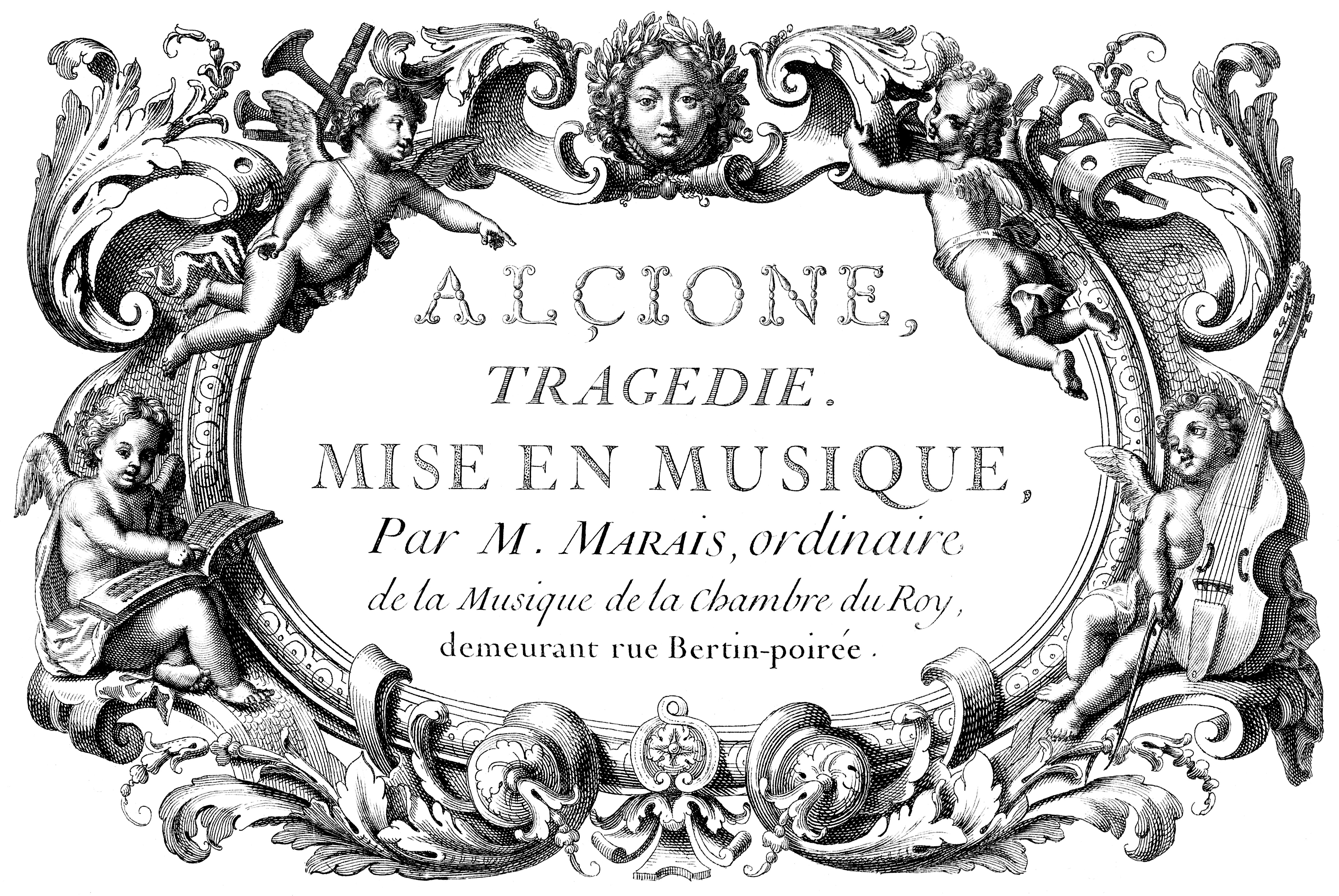 Marin Marais - Alcione - title page of the score - Paris 1706